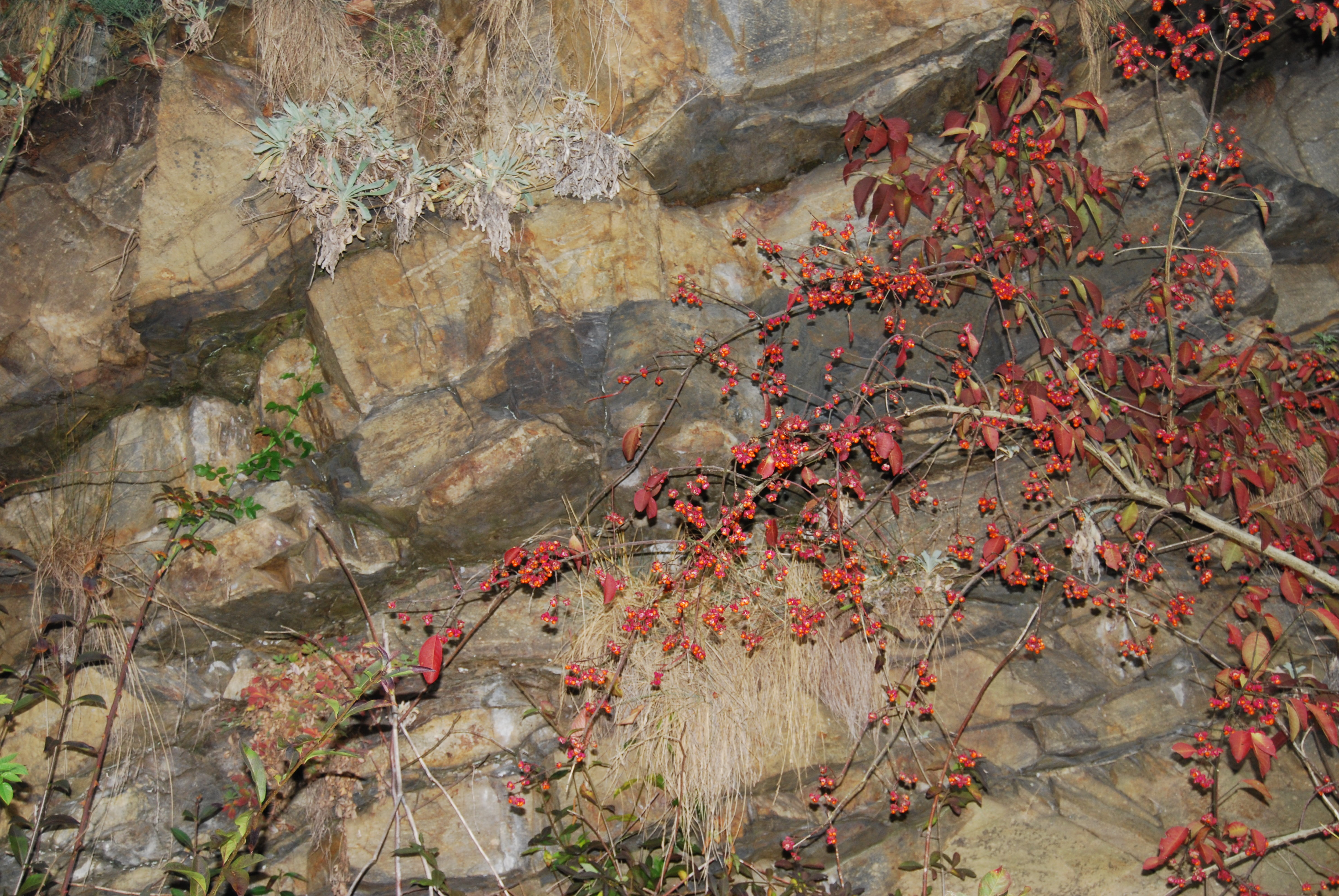 Natural monument Hamerské vrásy in Znojmo District, Czech Republic